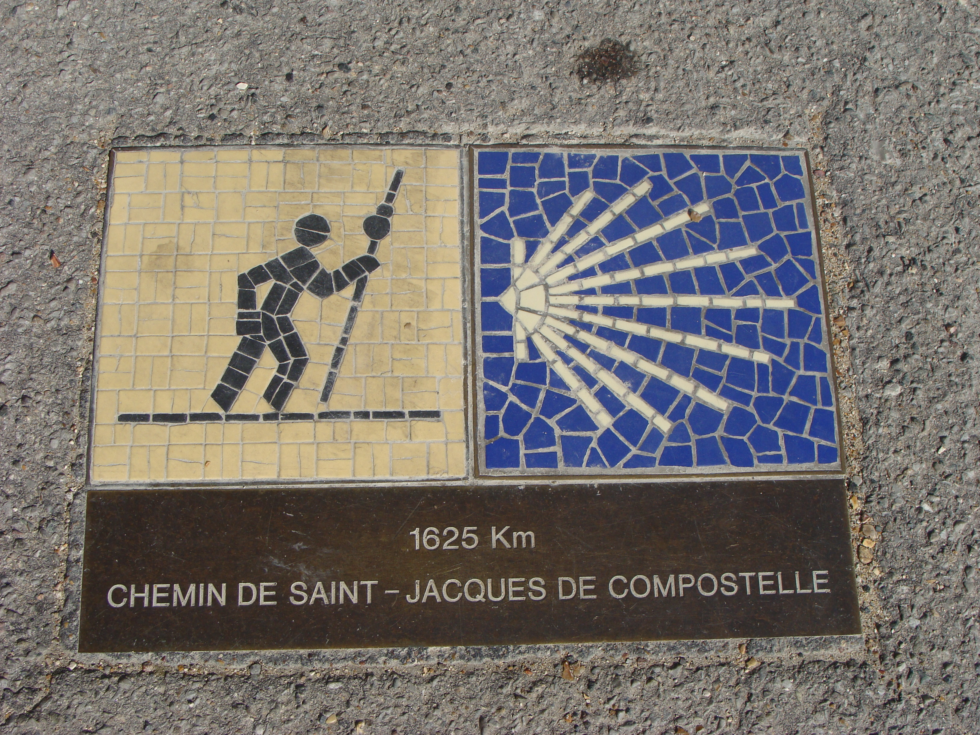 Pilgrimage way to Santiago de Compostella. Chartres, France